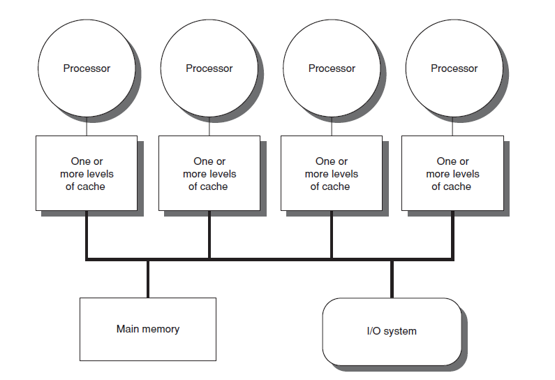 General diagram of cache organization